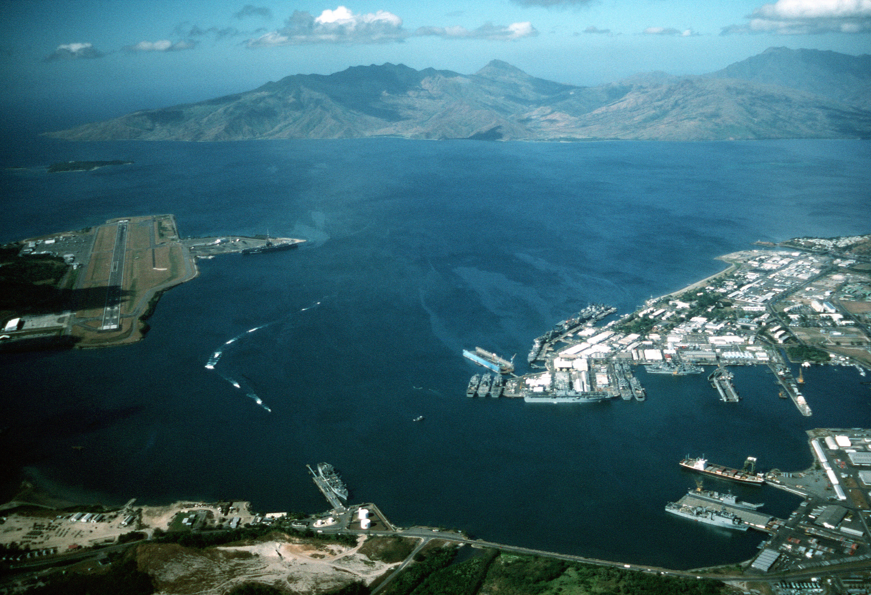 Aerial view of the U.S. Navy Naval Station Subic Bay, Philippines, circa in 1990, with Naval Air Station Cubi Point visible on the left. Note: The photo is dated, incorrectly, as "1 January 1990". The aircraft carrier USS Ranger (CV 61) is docked at NAS Cubi Point. Ranger was deployed to the Western Pacific from 24 February to 24 August 1989 and to the Western Pacific and the Indian Ocean during the 1991 Gulf War from 8 December 1990 to 8 June 1991. This photo was most probably taken in January of 1991, during the build-up to Operations DESERT SHIELD & DESERT STORM, but before the 12 June 1991 eruption of Mt. Pinatubo. In addition to the USS Ranger, moored at Leyte Pier, a Tarawa-class LHA is visible in the image, tied up in the maintenance area of the Subic Bay Naval Shipyard. The only Tarawa-class ship in the WestPac at the time was the Tarawa. The other west coast LHAs were both in port undergoing overhaul/maintenance in California (Belleau Wood (LHA 3) in San Diego and Peleliu (LHA 5) in Long Beach. Also visible at Alava Pier, above the Tarawa, is an Iwo Jima-class LPH, and at least seven other amphibious ships (LPD, LSD, LST). This is consistent with two full Amphibious Readiness Groups (ARGs) deployed for Operation DESERT SHIELD/DESERT STORM.